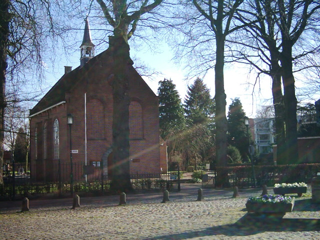 Zundert-Church